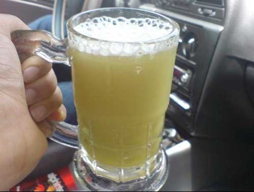 Sugar Cane Juice